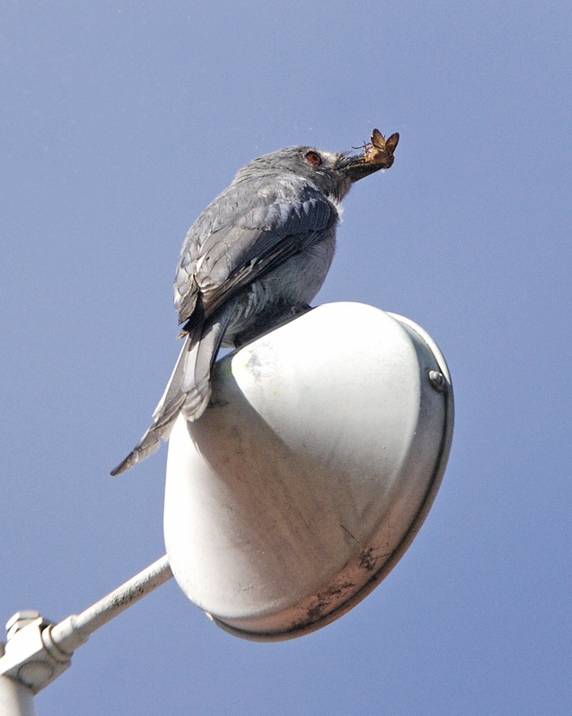 Ashy Drongo Dicrurus leucophaeus ssp Dicrurus leucophaeus stigmatops Kinabalu Park, Sabah, East Malaysia 6th. June 2009 Distribution: 690V7312